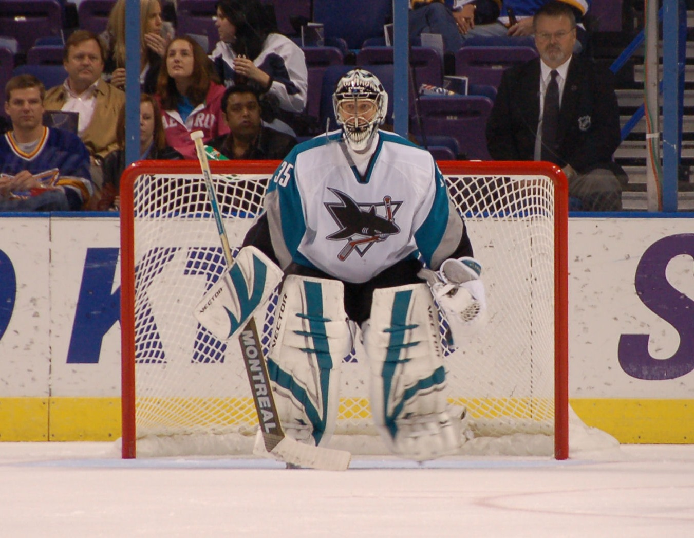 Vesa Toskala, finnish goaltender of the San Jose Sharks in game vs.St. Louis Blues,November 28, 2006